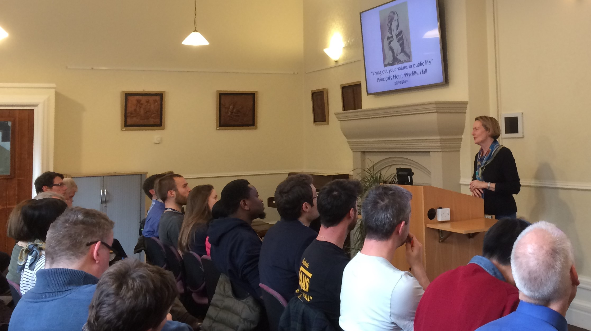 Helen Ghosh at Wycliffe Hall